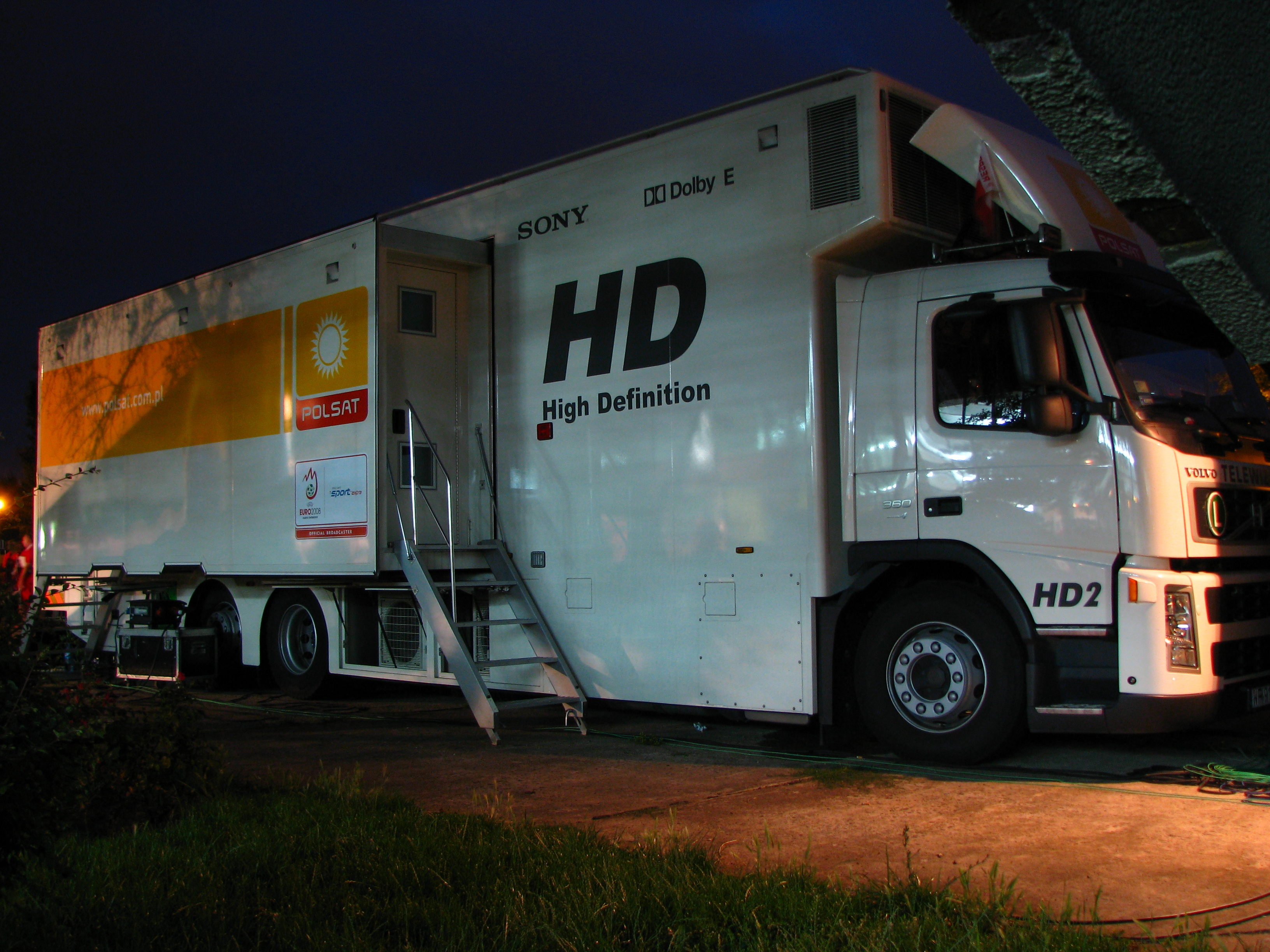 Outside broadcasting van TV Polsat. Poland. Poznań.